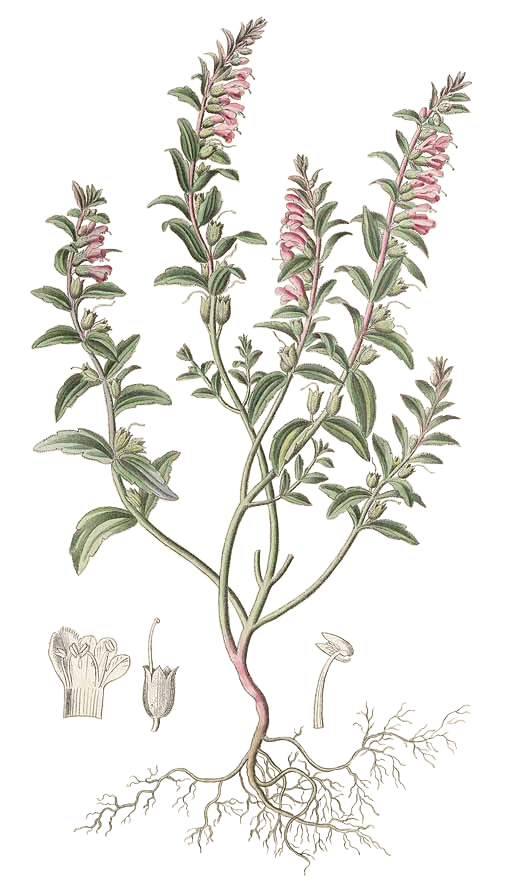 Illustration of Odontites rubra Persoon = Odontites vulgaris